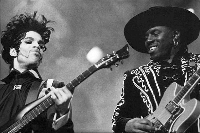 Levi Seacer ,Jr. is an American Musician,Producer & Songwriter.He started playing guitar at the ripe age of 6, under direction of his Grandmother,who Pastored a Church, and wanted an electric Gospel sound, as the sound canvas.After many years of Practice and hard work, his playing caught the ears of the late great, "Don Cornelius", Pioneer of the hit Dance Show, "Soul Train". Don taught Levi, many things about the Music Business, which lead him,and prepared him, for artists like Sheila E. While playing with Sheila E.,he was tapped by Prince to form a new touring band after the demise of "The Revolution" in 1986, called "The New Power Generation". Levi became the band's bassist as well as a backing vocalist.He later, upon Prince's request, switched to his main instrument guitar.The only Prince member to have played multiple instruments. Later, he began collaborating with Prince as a Songwriter and Co-Producer on his projects, as well as other Major Artists. During his years with Prince, Levi worked with many Gold and Platinum Artists, such as,The Time, Earth Wind & Fire The Pointer Sisters, Carmen Elektra, Tevin Campbell, Salt and Pepa, Johnny Lang, George Clinton,Gerald Austin, and Mavis Staples to name a few. After leaving the Prince camp in 1993, He worked as a Producer,Performer, Touring Musician, and Session Musician with various Artists, most notably Multi Grammy winning Artists Raphael Saadiq,Tony Toni Tone', El Debarge, Jody Watley, Tower of Power and the 3x Grammy winning ensemble Sounds of Blackness, former artists of Jimmy Jam and Terry Lewis. Levi has also been voted as one of the thousand greatest guitarists in the World.